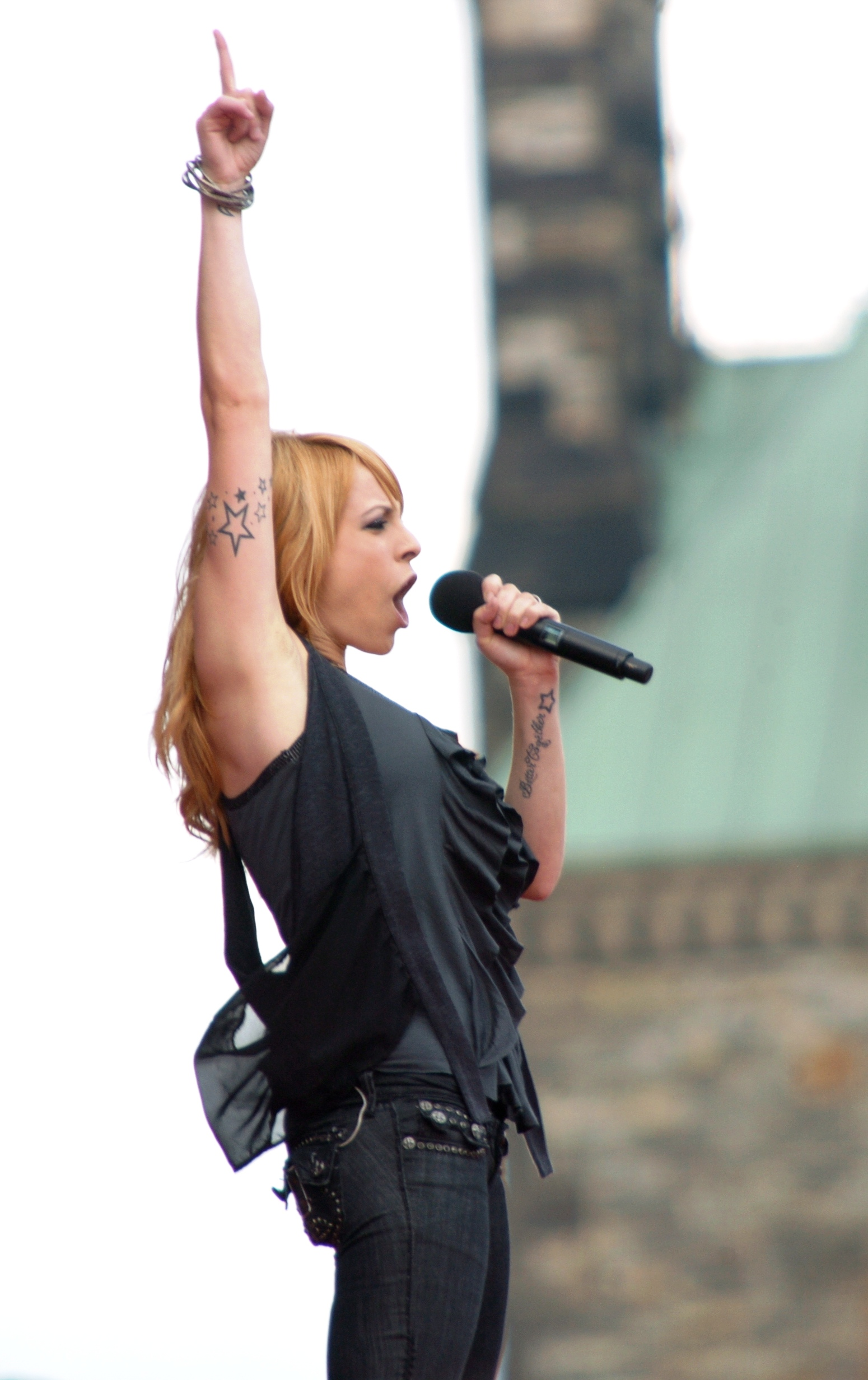 Marie-Mai performing in July, 2009.